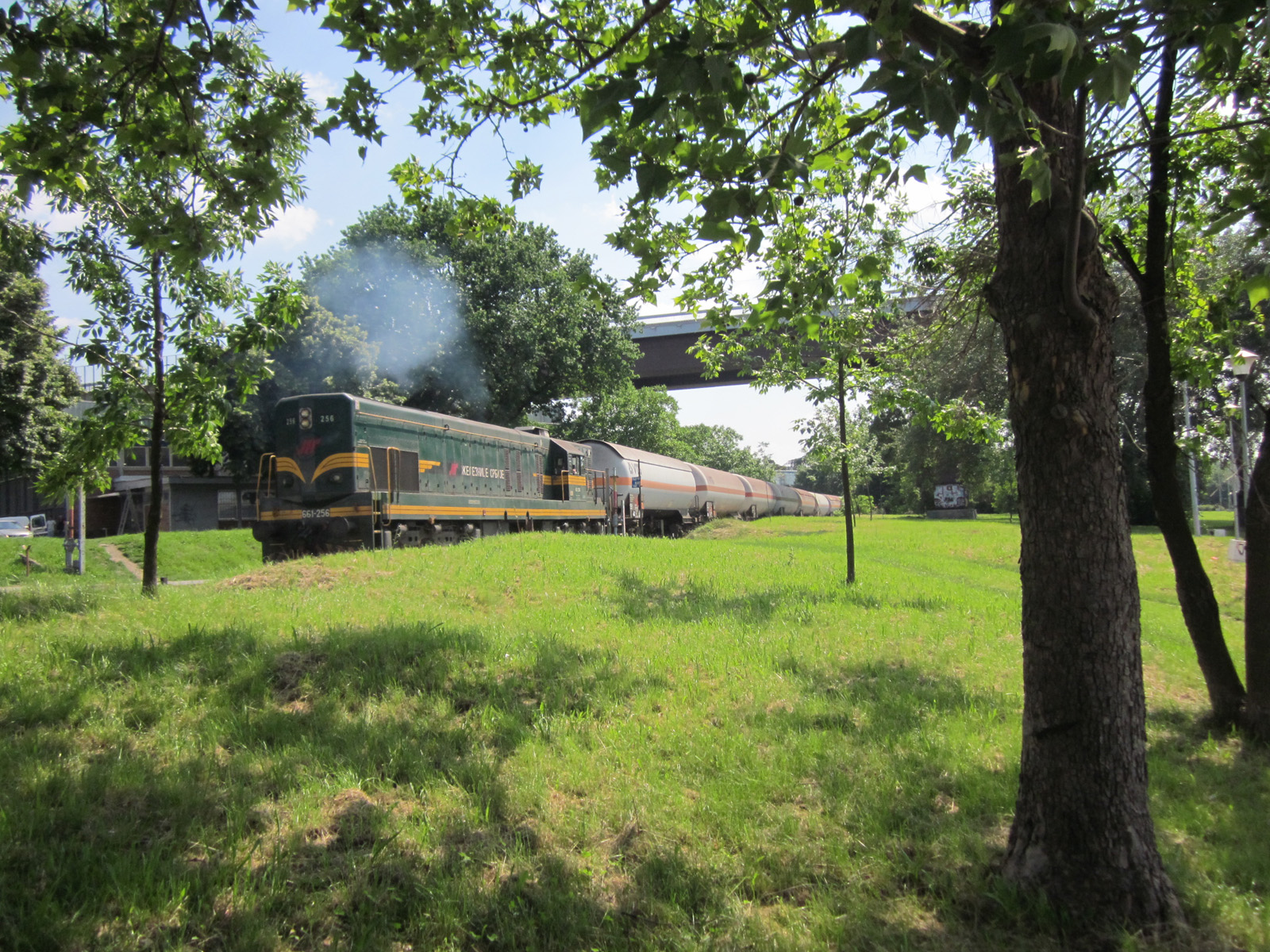 Belgrade, Serbia. Industrial railroad along the Sava river to the Donau port. Oil train passing under the New railway bridge (Novi železnički most).